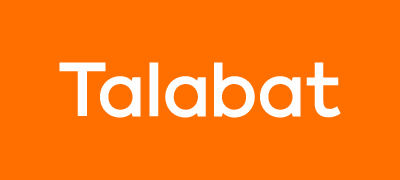 Talabat (Arabic: طلبات, Ṭalabāt) is the largest online food ordering platform in the Middle East.